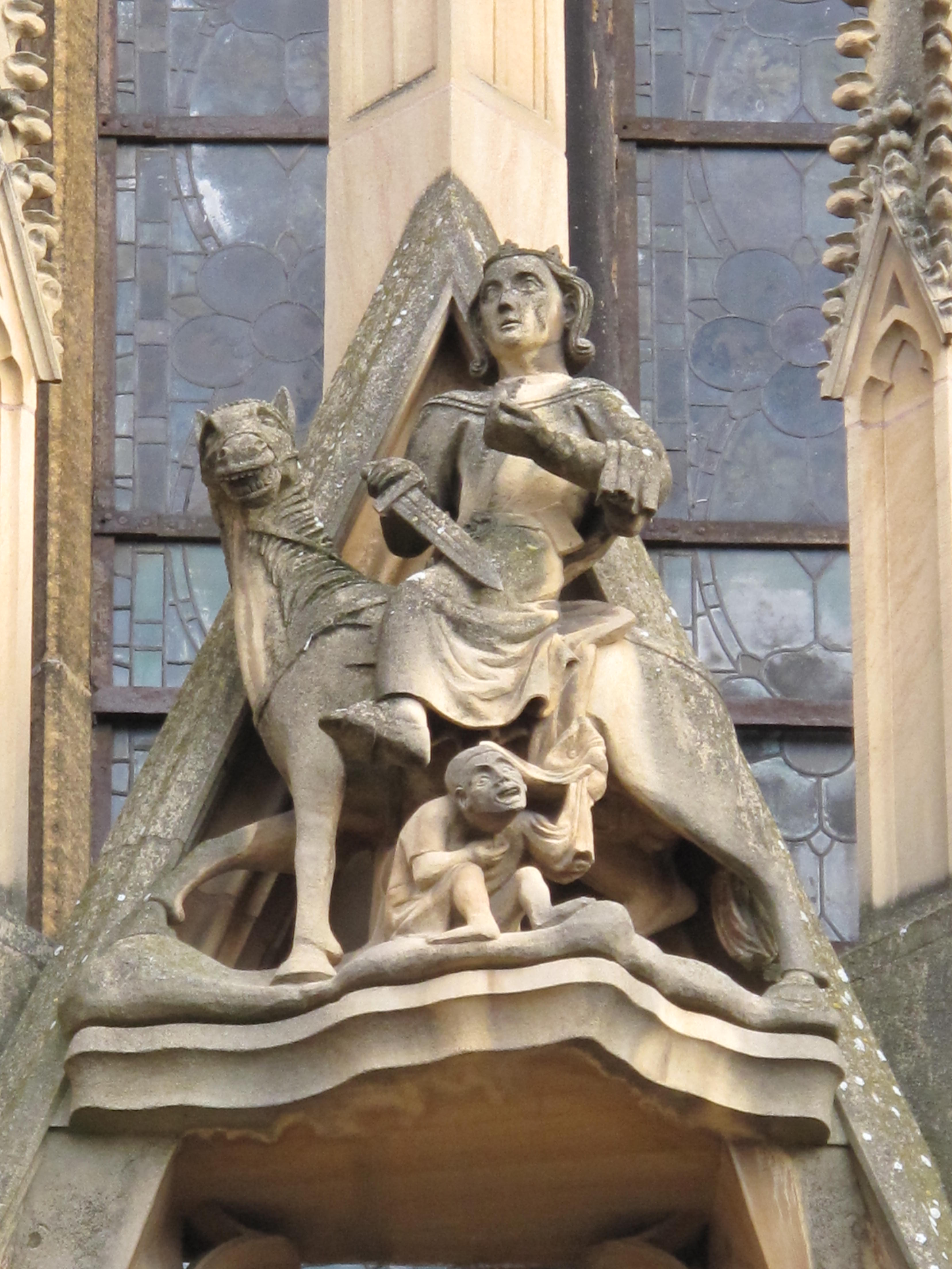 Statue of Saint-Martin sharing his coat with a beggar on the facade of the cathedral Saint-Martin in Colmar, France.